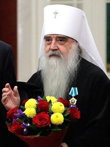 Metropolitan Filaret, a bishop of the Russian Orthodox Church and the leader of the Belarusian Orthodox Church.